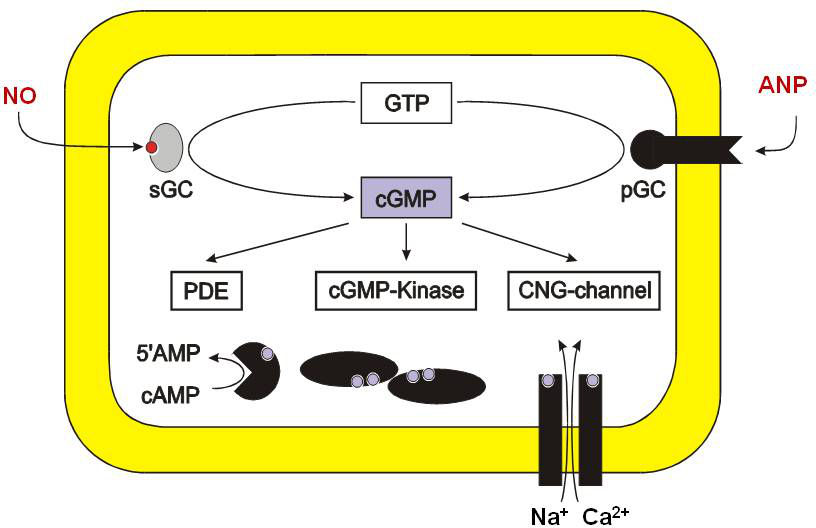 Drawing showing targets of cGMP in cells